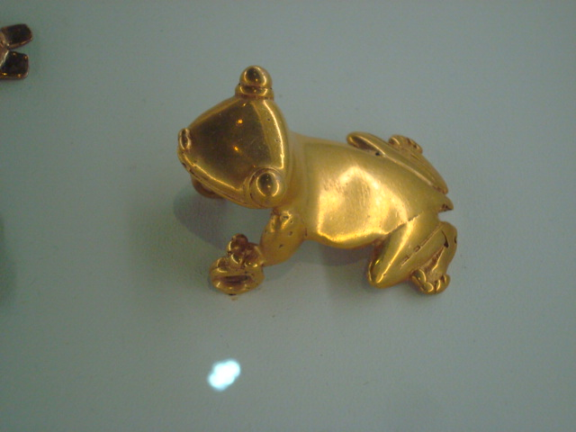 Frog shapped pendant. Central-Caribbean Region of Costa Rica. 700-1550 AD. Museum of Pre-Columbian Gold, San Jose, Costa Rica